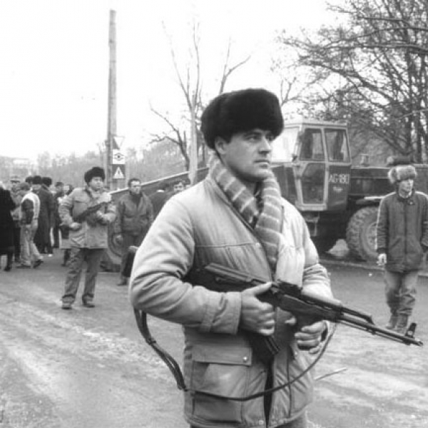 Civilian with PM Md. 1963 during the Romanian Revolution of 1989.